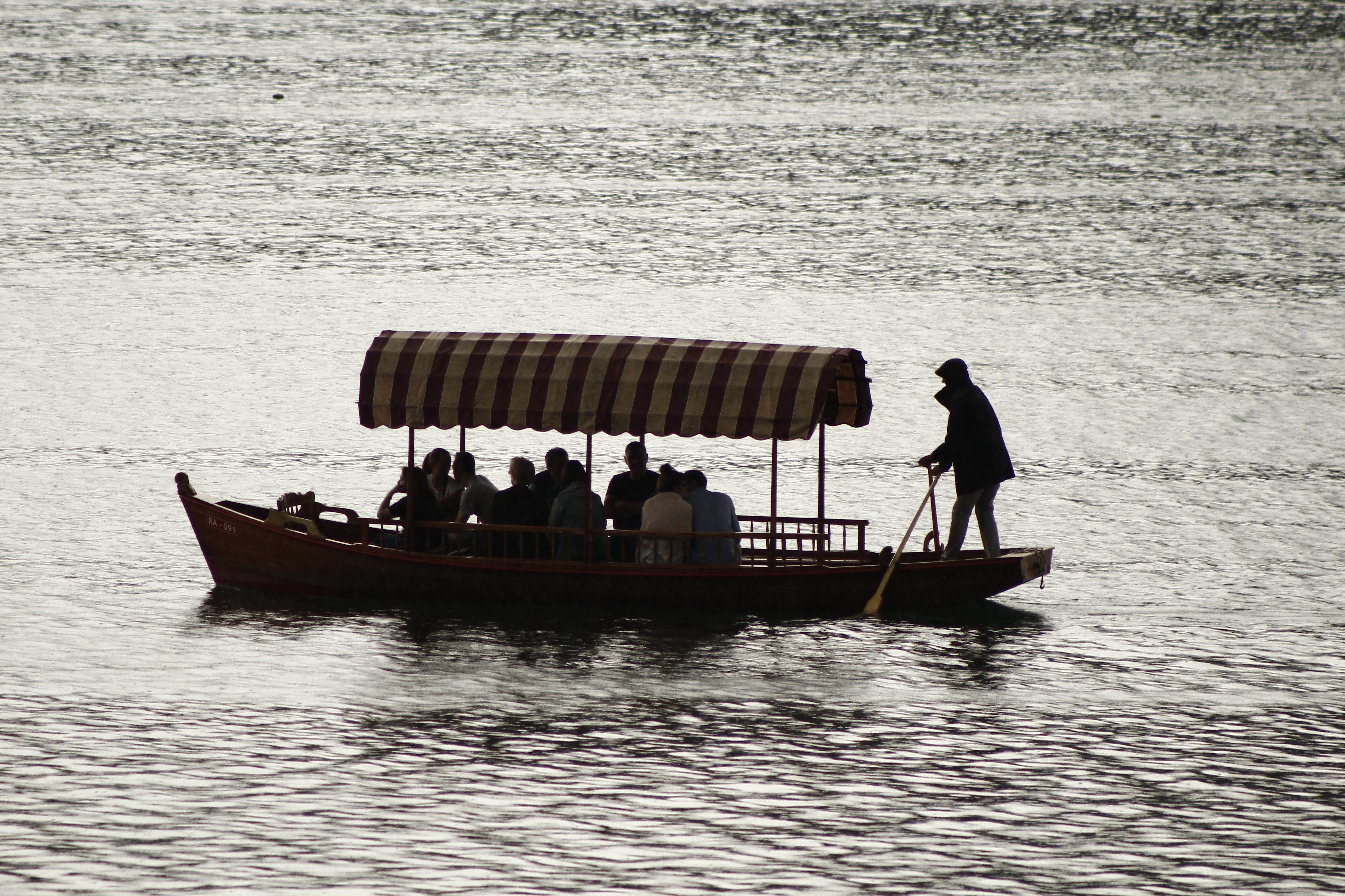 A rowboat on Lake Bled, Slovenia